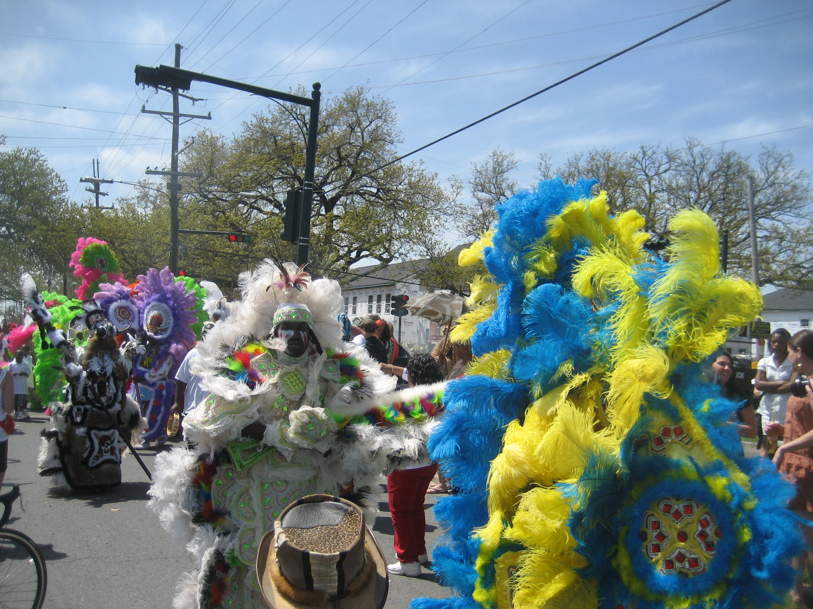 Mardi Gras Indians Uptown Super Sunday celebration, New Orleans.